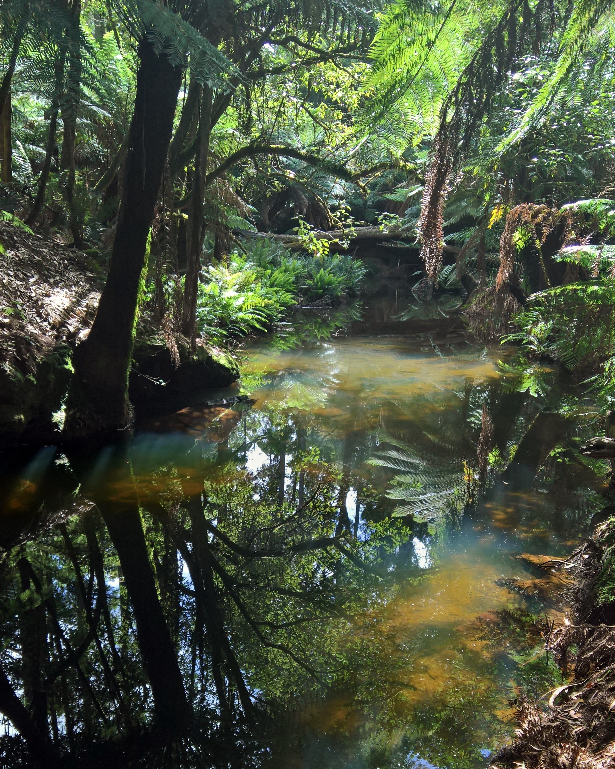 A section of Camp Creek near the end of Reservoir Drive